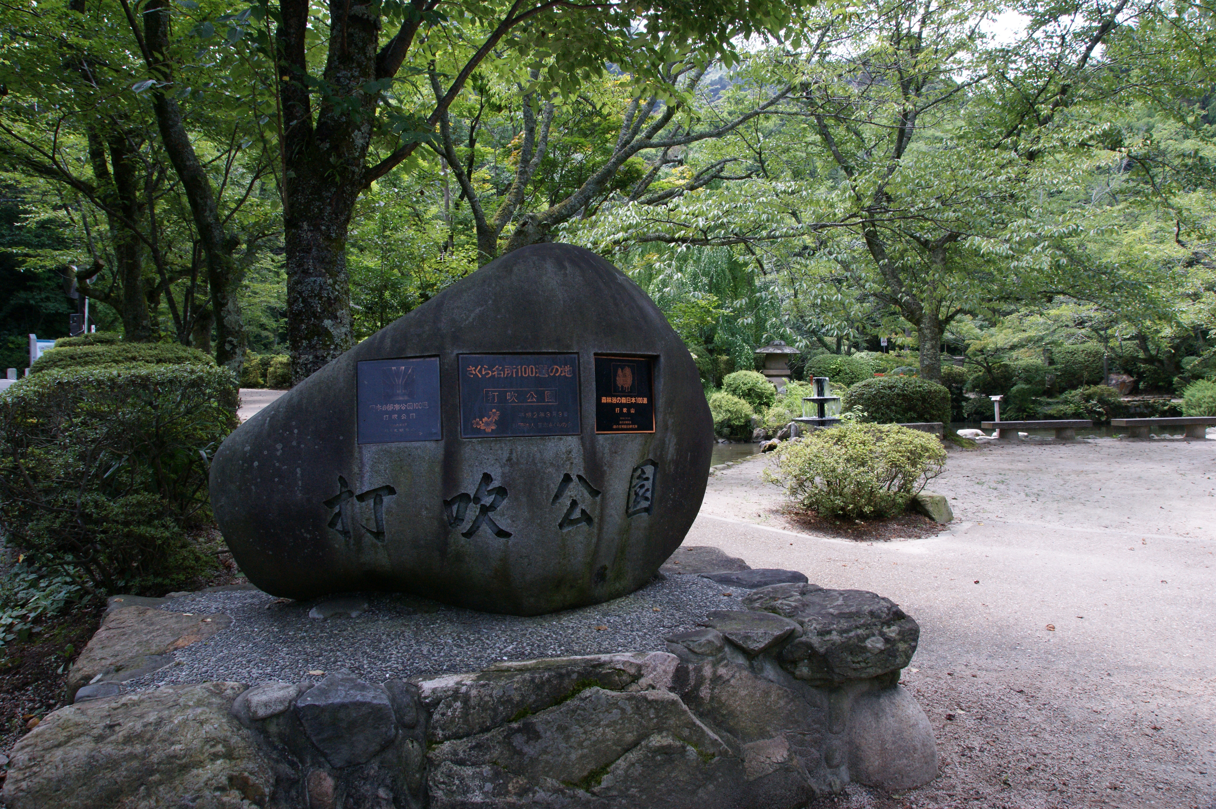 Utsubuki Park in Kurayoshi, Tottori prefecture, Japan